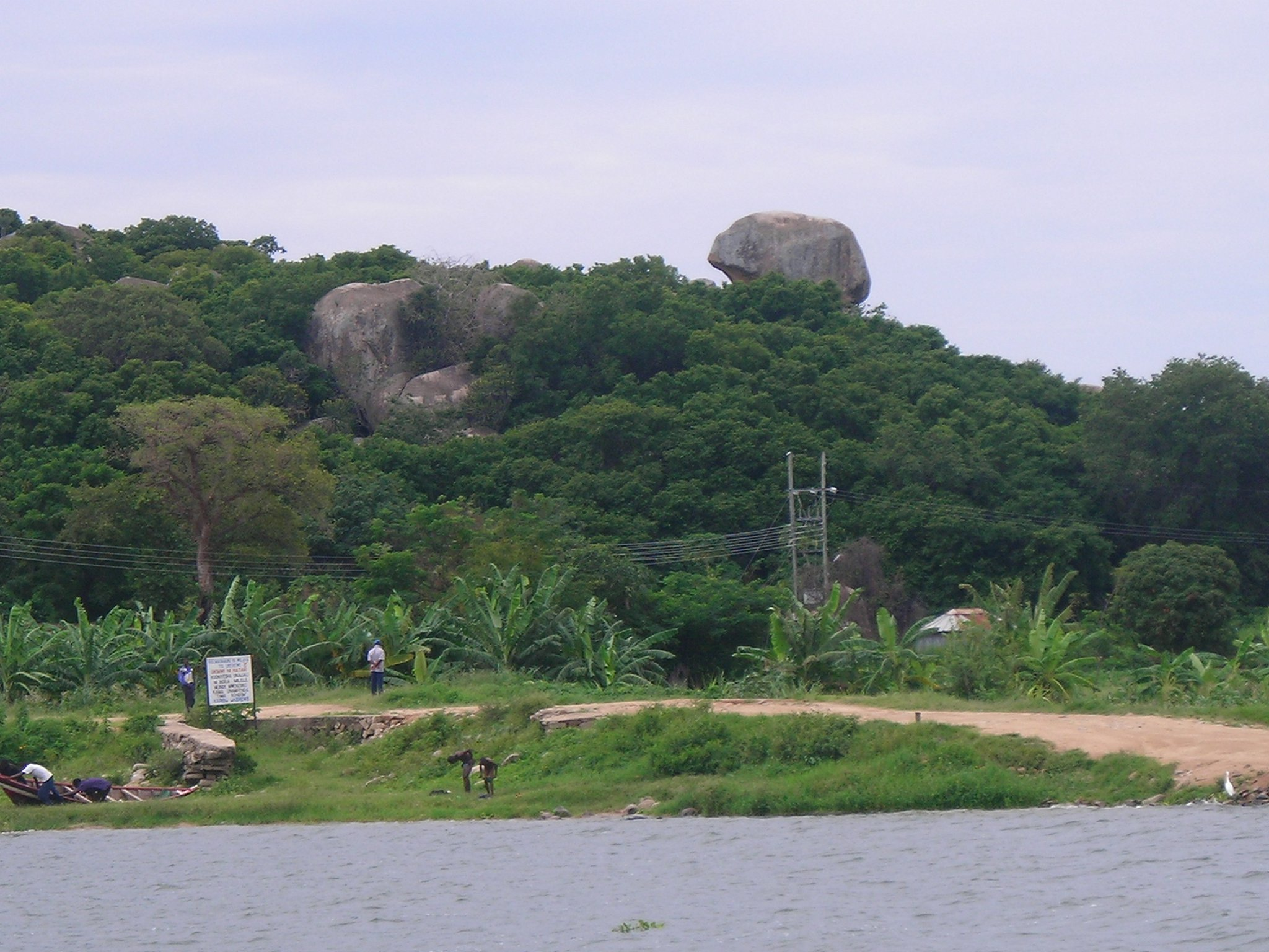 Ukerewe Island, the largest island in Lake Victoria and the largest inland island in Africa, Tanzania